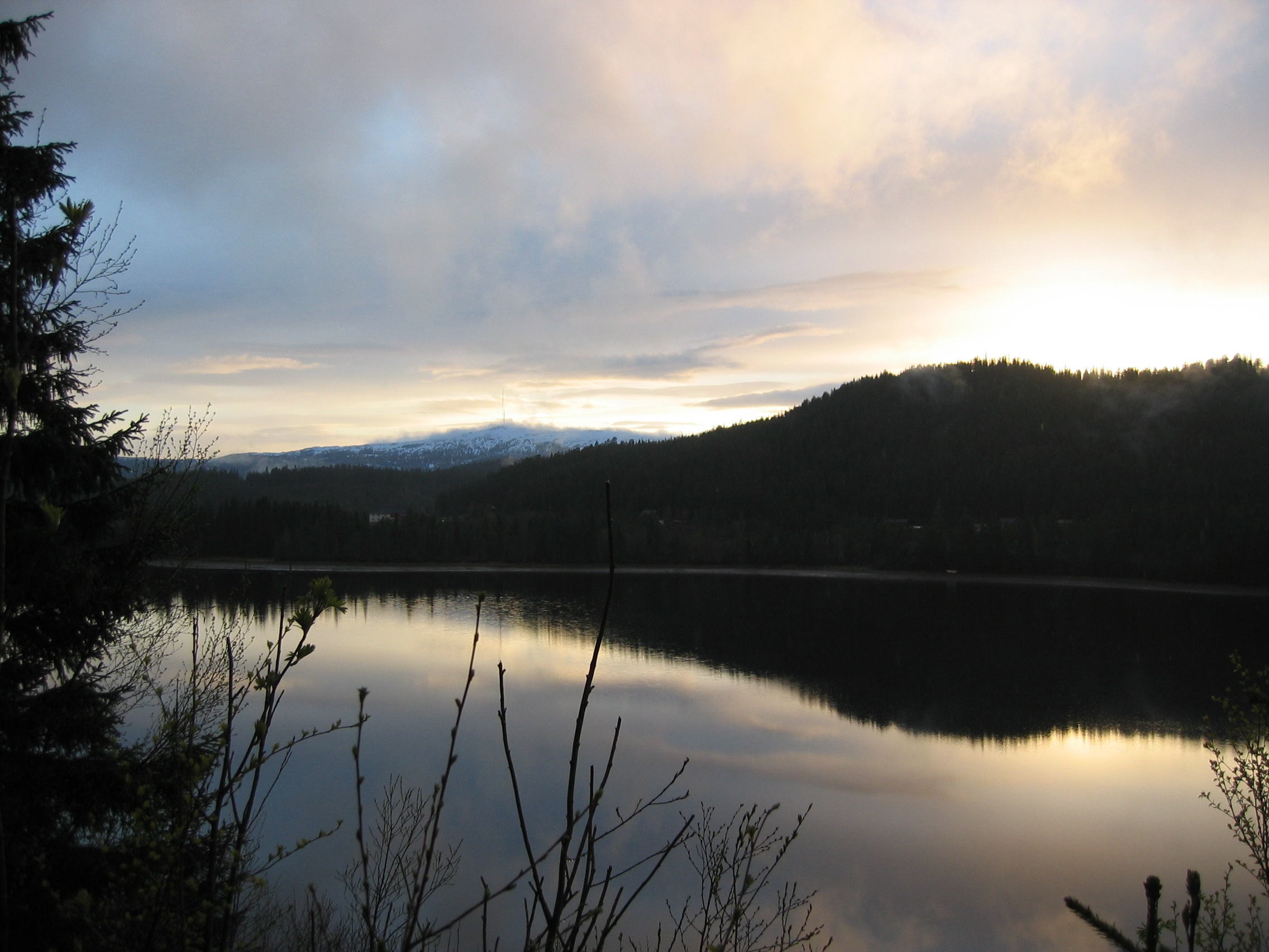 Selbusjøen lake and the mountain Vassfjellet in Klæbu, Norway. Picture taken facing north from the south side of Selbusjøen in May 2005.